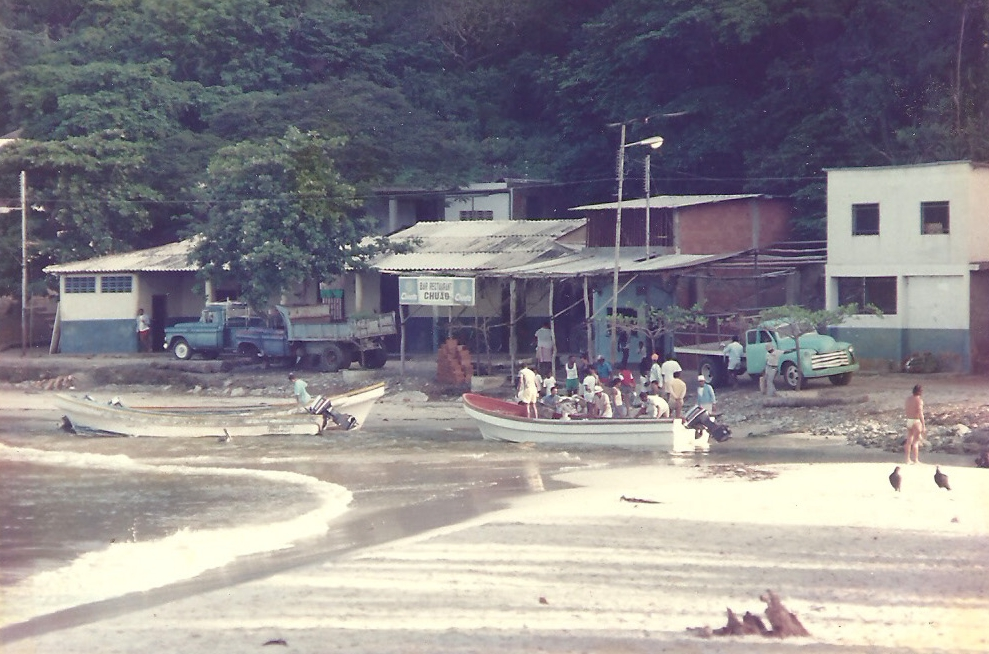 Shore, Chuao, northern Venezuela